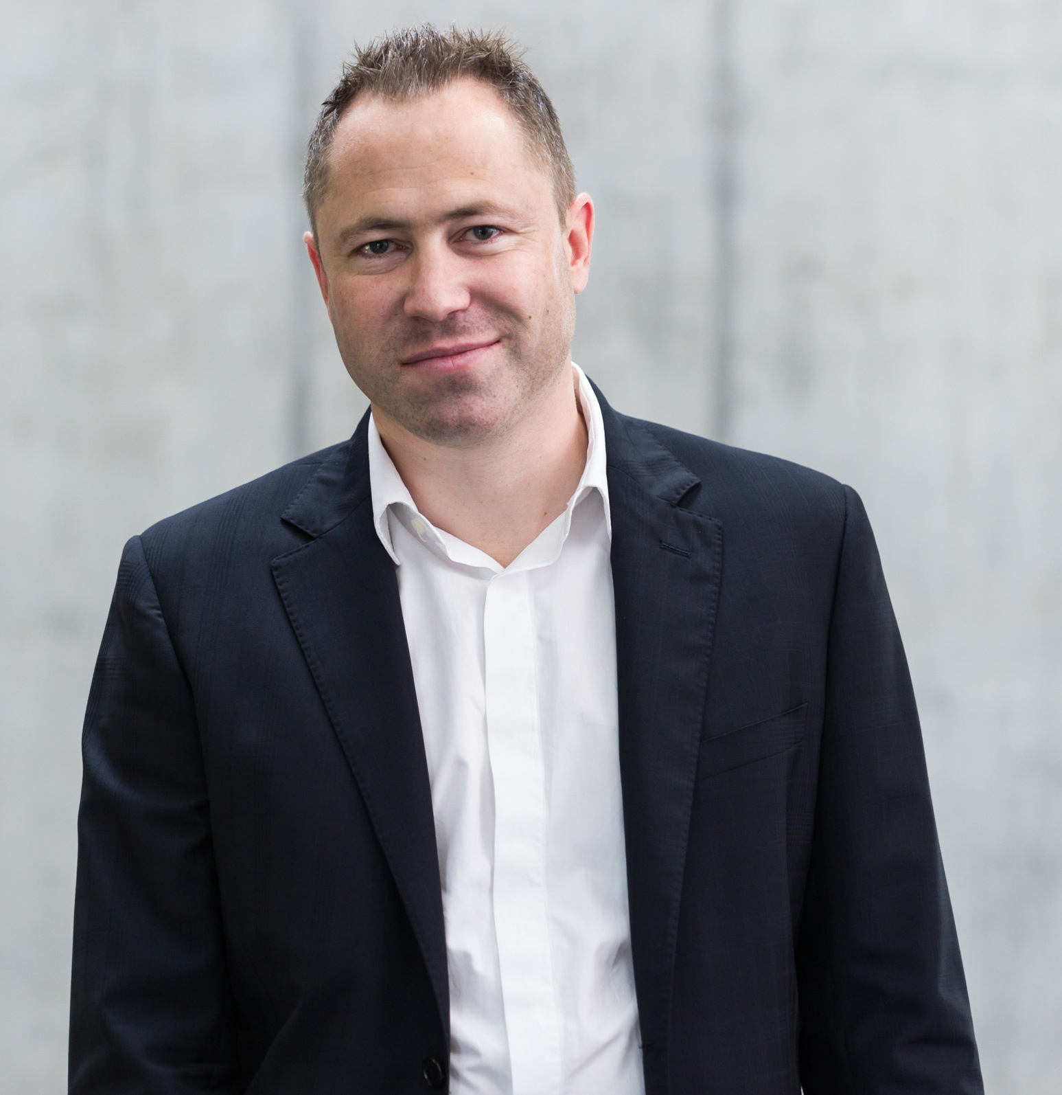 Ph. Gut